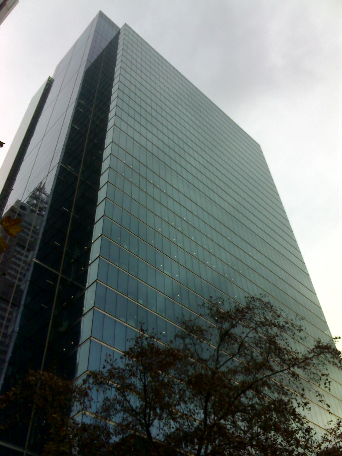 Southern Cross Tower (East Tower) located at 121 Exhibition Street, Melbourne, Victoria, Australia.